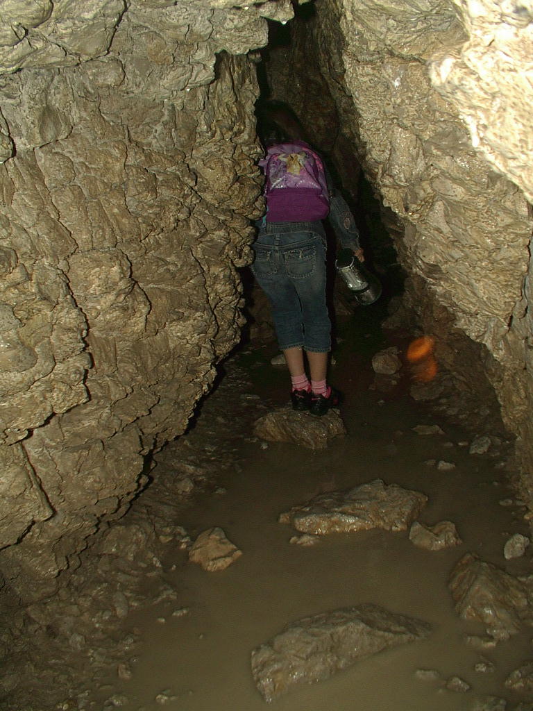 Inside Mylna Cave.